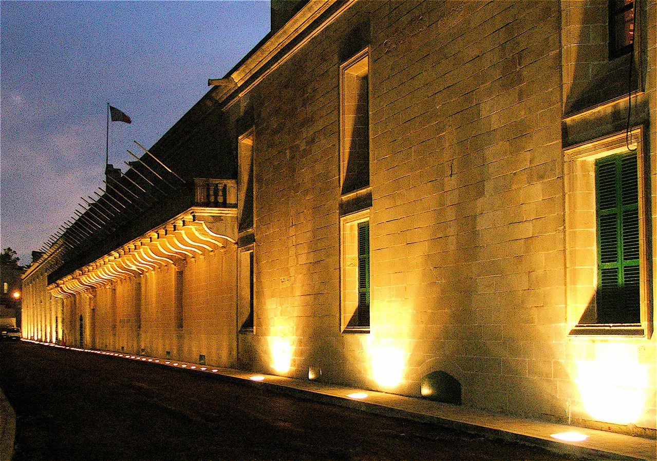 Sacra Infermeria hospital was the site of the first medical school in Malta